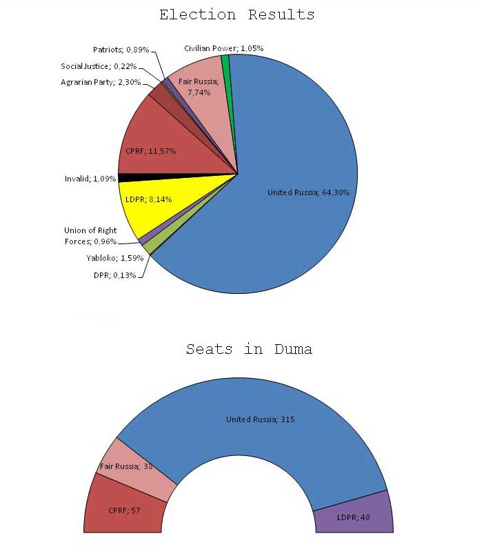 Russian Legislative Election 2007, party colors are arbitrary, party locations are arbitrary